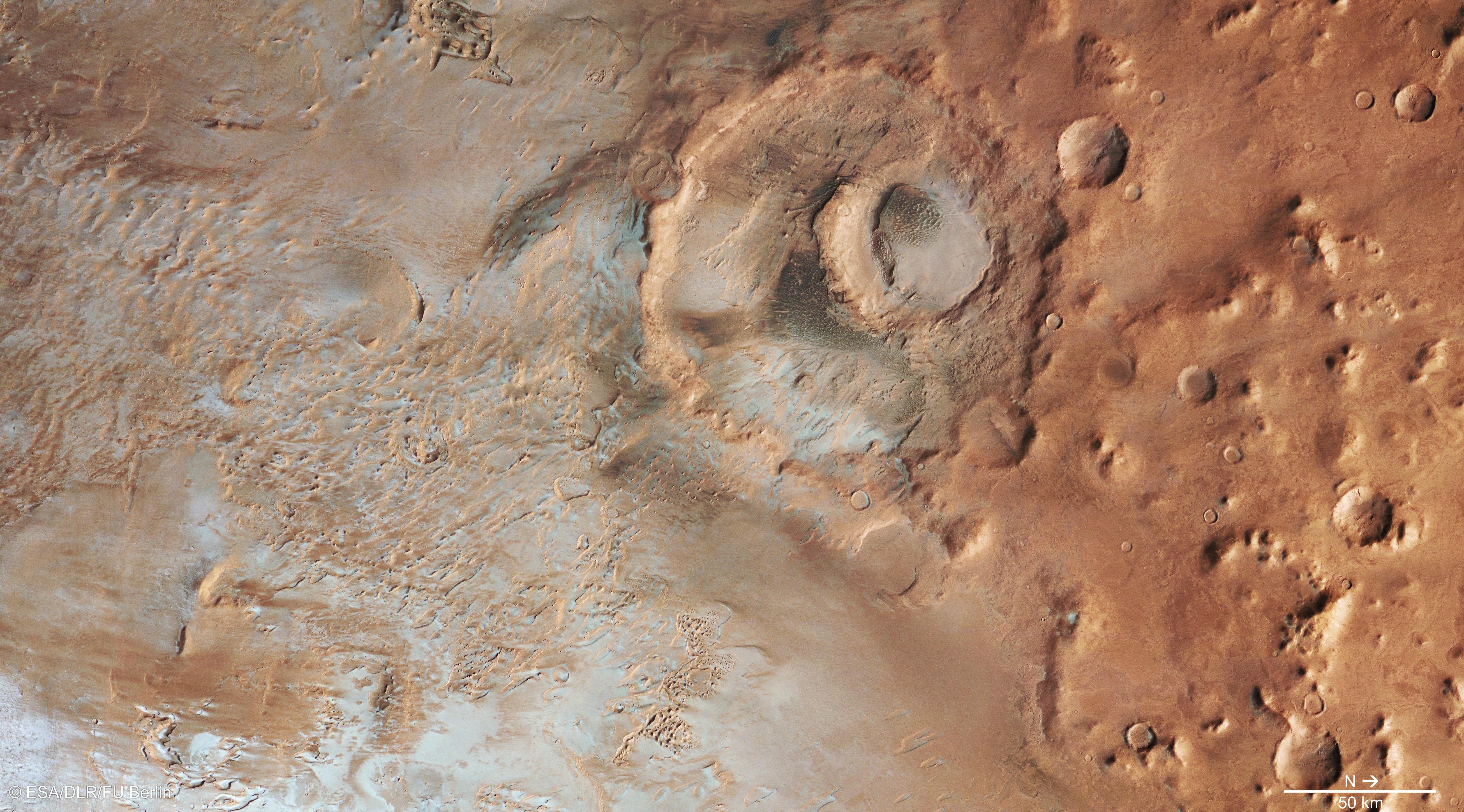 Hooke crater is located near the northern edge of the 1800 km-wide Argyre basin, one of the most impressive impact structures on Mars, excavated in a giant collision about 4 billion years ago. Situated in a flat part of the basin known as Argyre Planitia, Hooke crater has a diameter of 138 km and a maximum depth of about 2.4 km. It is named after the English physicist and astronomer Robert Hooke (1635–1703). Hooke crater comprises two different impact structures, with a smaller impactor blasting a depression off-centre in the floor of a larger, pre-existing crater. The newer crater in the centre is filled with a large mound topped by a dark dune field. The mound appears to be composed of layered material, possibly alternating sheets of sand and frost. The image was acquired by the High Resolution Stereo Camera on Mars Express on 20 April 2014 during orbit 13 082. The ground resolution is about 63 m per pixel. Hooke crater is located at about 46°S / 316°E. North is right and East is down. Credit: ESA/DLR/FU Berlin (G. Neukum), CC BY-SA 3.0 IGO Copyright Notice: This work is licenced under the Creative Commons Attribution-ShareAlike 3.0 IGO (CC BY-SA 3.0 IGO) licence. The user is allowed to reproduce, distribute, adapt, translate and publicly perform this publication, without explicit permission, provided that the content is accompanied by an acknowledgement that the source is credited as 'ESA/DLR/FU Berlin’, a direct link to the licence text is provided and that it is clearly indicated if changes were made to the original content. Adaptation/translation/derivatives must be distributed under the same licence terms as this publication. To view a copy of this license, please visit